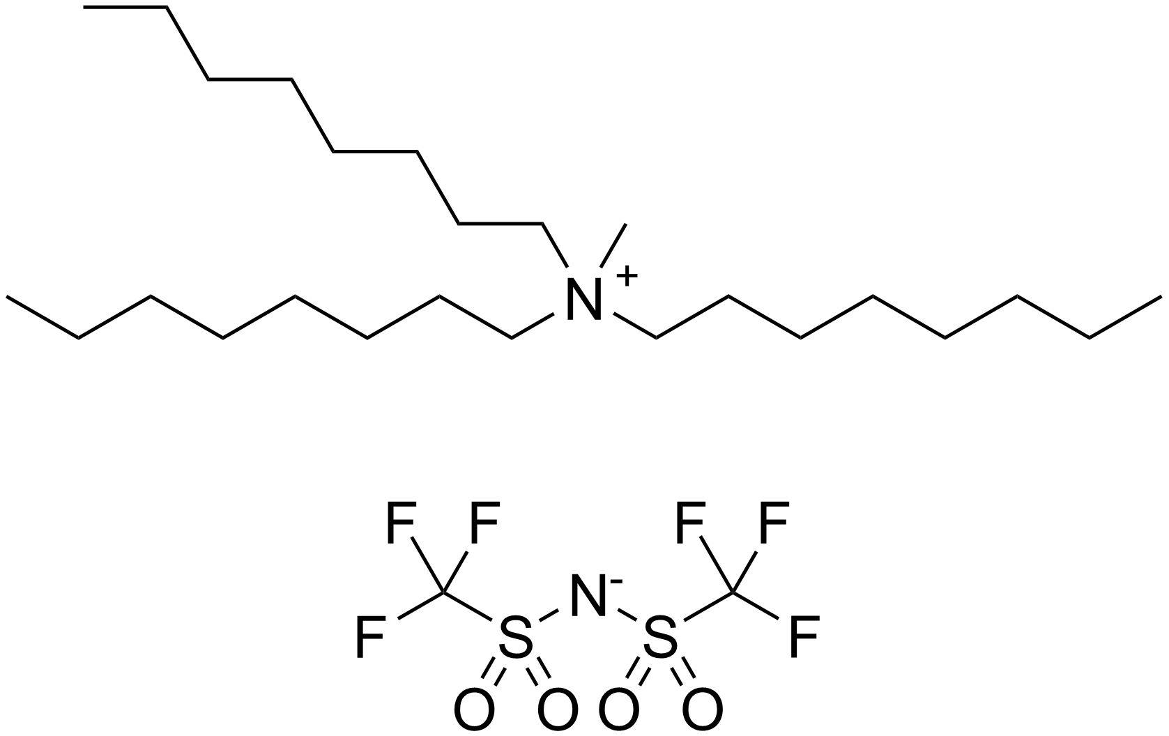 Chemical structure of Trioctylmethylammonium bis(trifluoromethylsulfonyl)imide